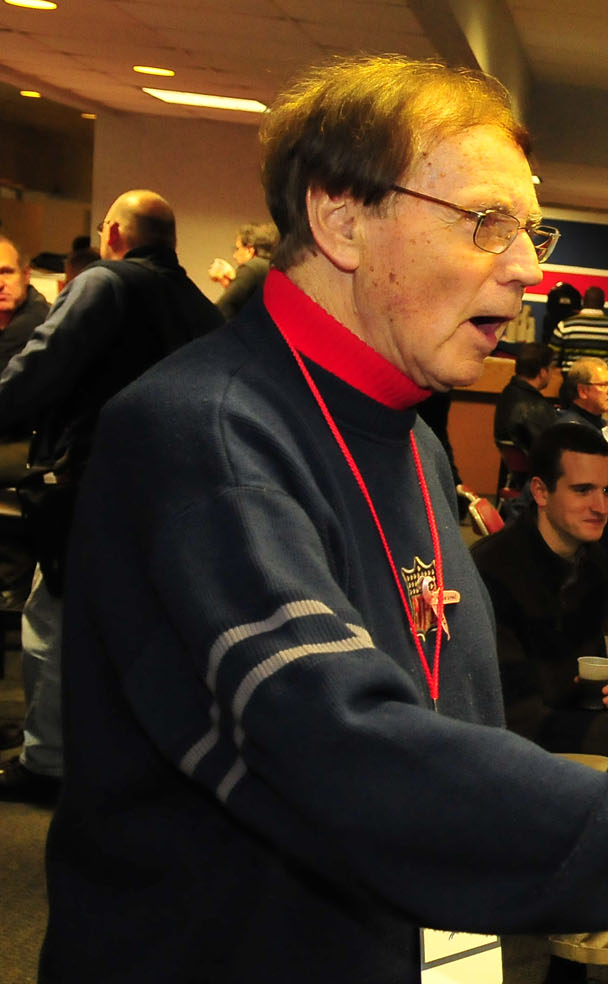 Van Miller, television sportscaster and voice of the Buffalo Bills, Nov. 16, 2008, during a Monday Night Football game at Ralph Wilson Stadium in Orchard Park, N.Y. VIRIN: 081116-N-5758H-427